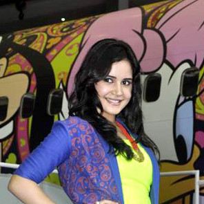 Shivshakti Sachdev at Shantanu Nikhil's kids fashion show with Disney Channel